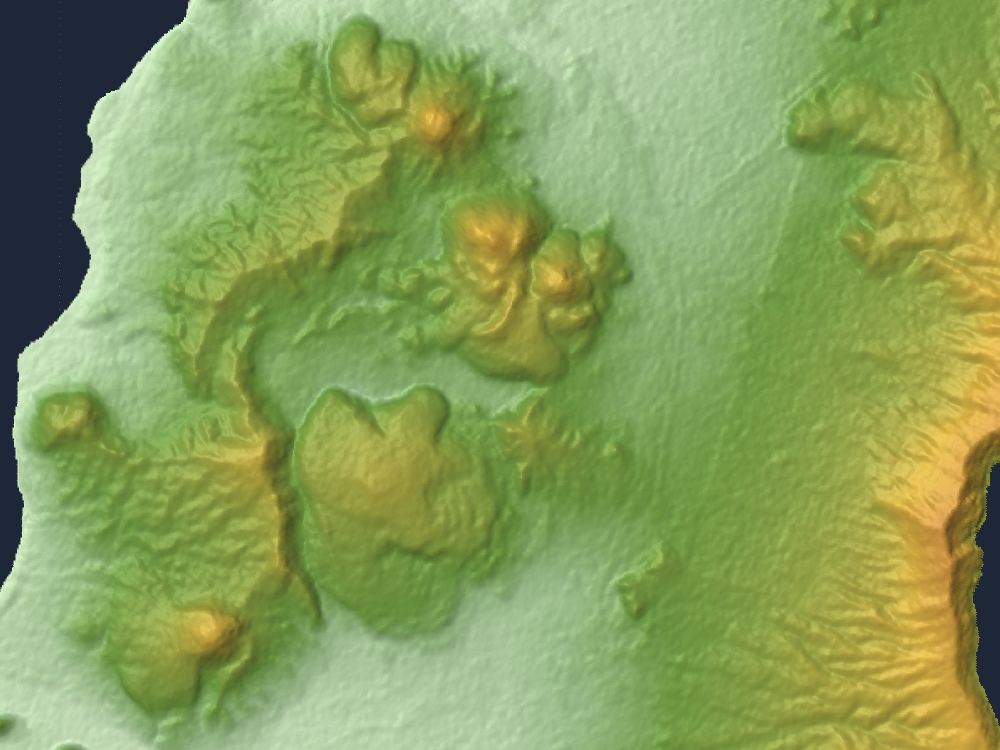 Mount Atosanupuri & Mount Makuwanchisappu & Mount Sawanchisappu & etc. in Hokkaido, Japan.